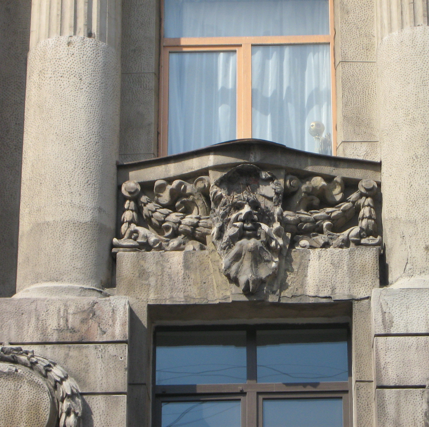 Decorative detail of Dom Antonovoi (Bolshoy avenue (Petrograd side), 74, Saint-Petersburg, Russia)